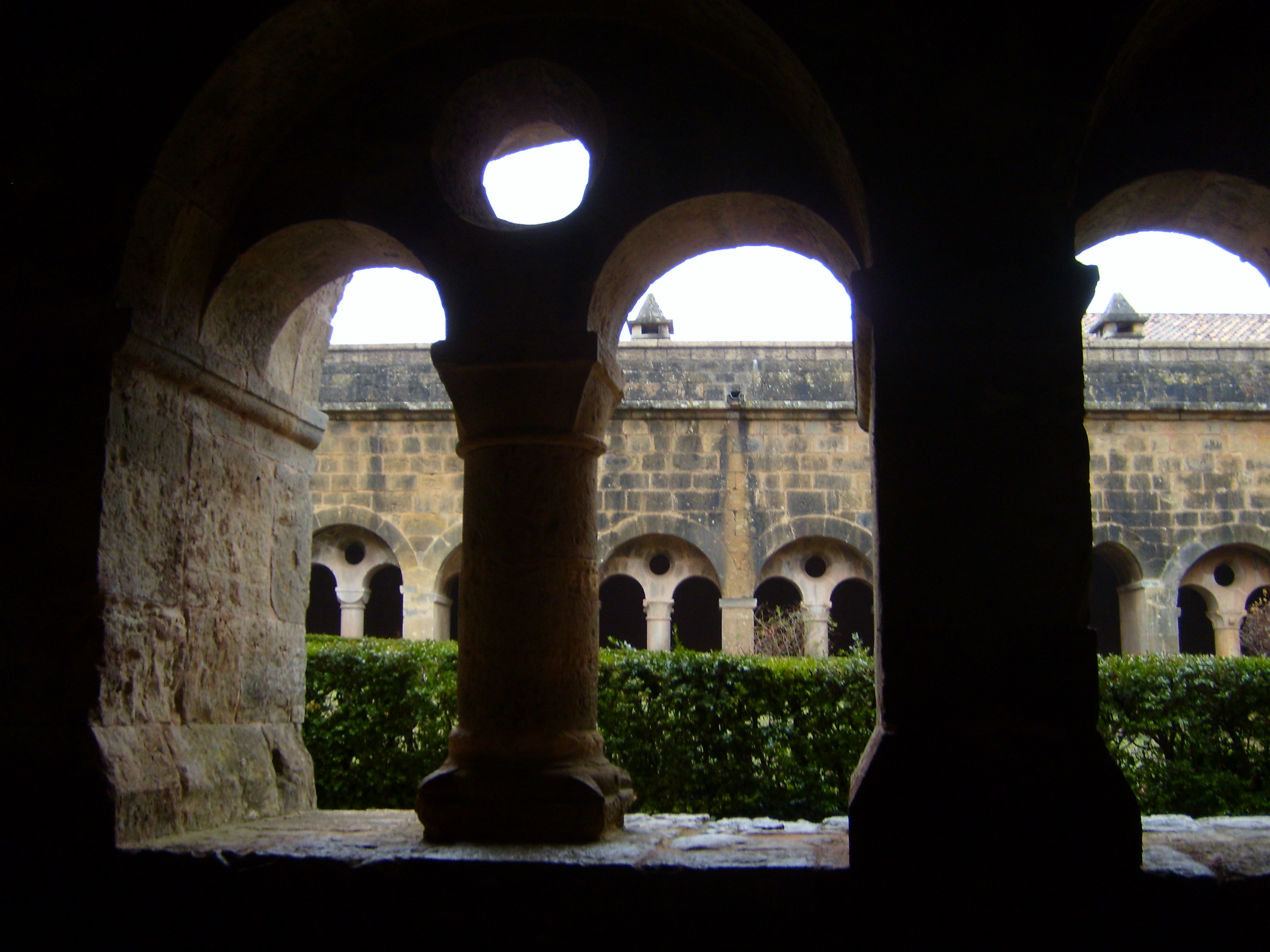 Garden and Cloister of Le Thoronet Abbey, Provence, France